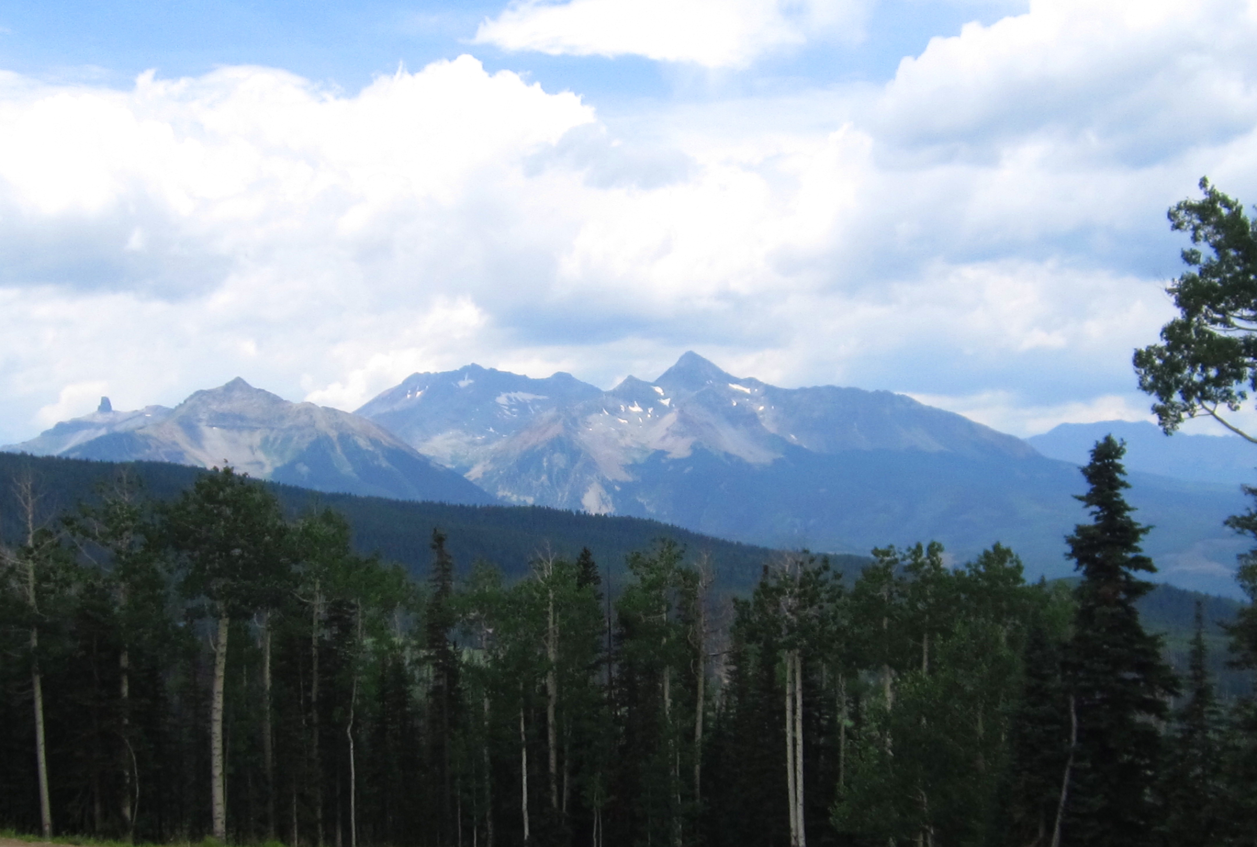 Mount Wilson